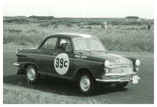 The Austin Lancer Series II of Brian Foley & Alan Edney contesting the 1960 Armstrong 500 at Phillip Island. The Lancer Series II was built by BMC (Australia) between 1959 and 1962.